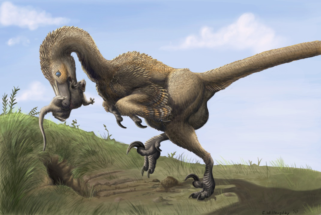 The maniraptoran dinosaur Saurornitholestes digging a Multituberculate out of a burrow, as per the trace fossil described in the 2010 Geology paper "Predatory digging behavior by dinosaurs" by Dr. Edward Simpson.